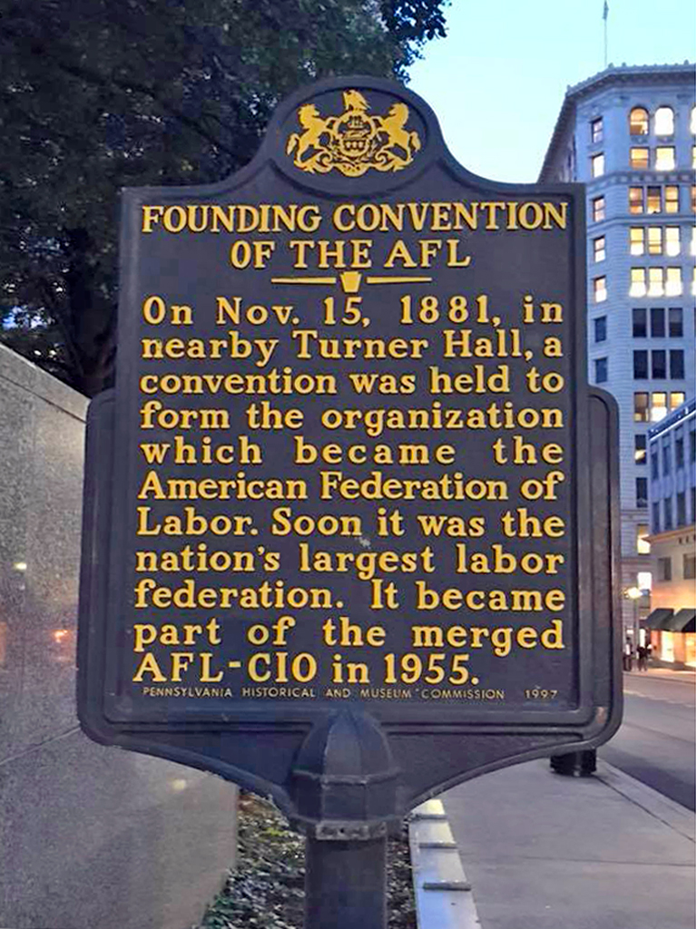 Historical marker for the founding convention of the Federation of Organized Trades and Labor Unions of the United States and Canada (FOTLU), which changed its name to American Federation of Labor in 1886. Additional information online.